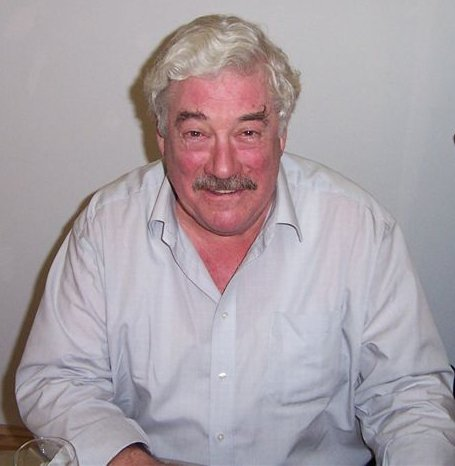 Welsh actor Gareth Thomas, "Blake" of the Blake's 7 television program, at the Blake's 7 Series 2 DVD launch.